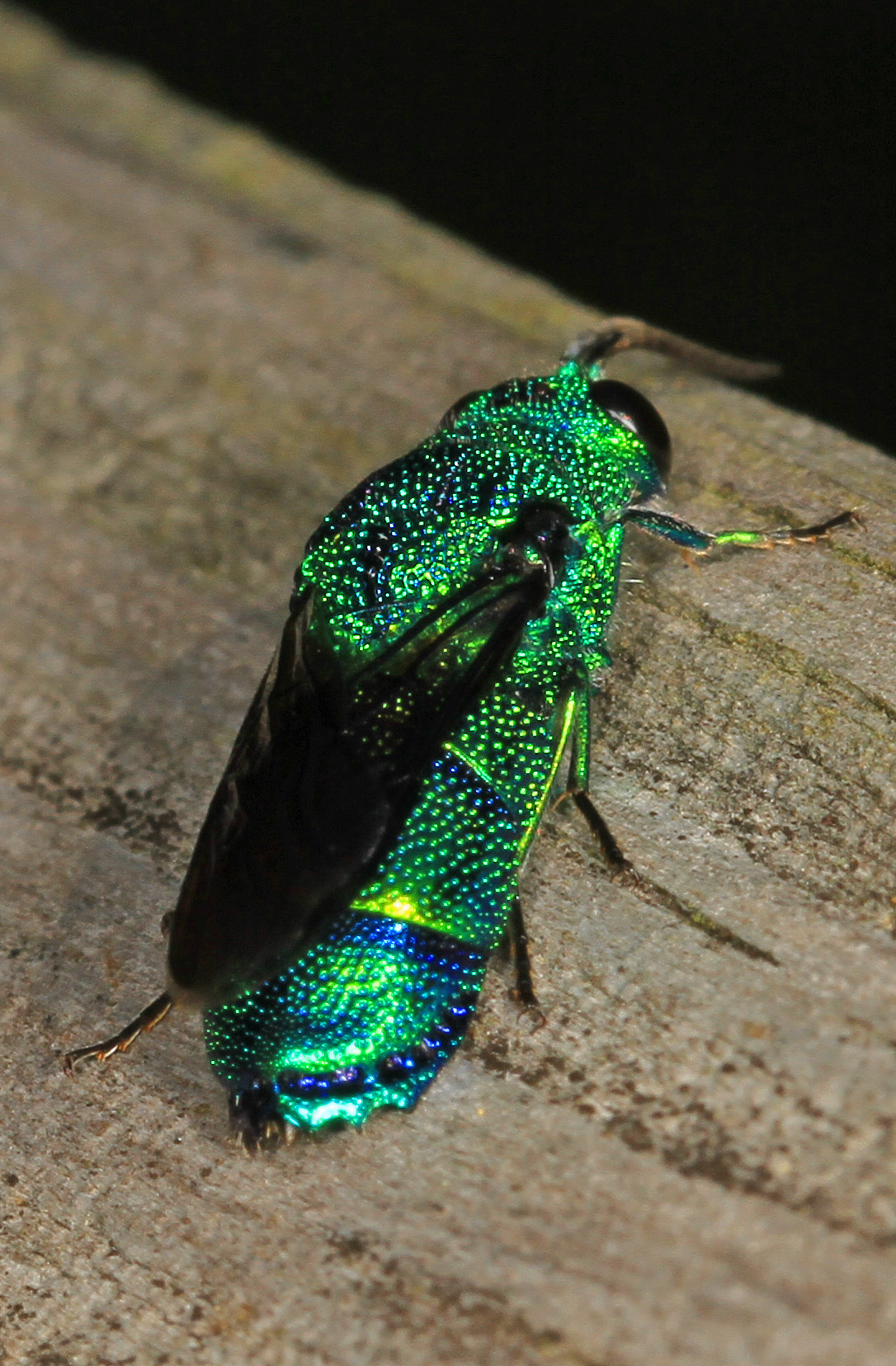 Cuckoo Wasp - Chrysis smaragdula, Leesylvania State Park, Woodbridge, Virginia